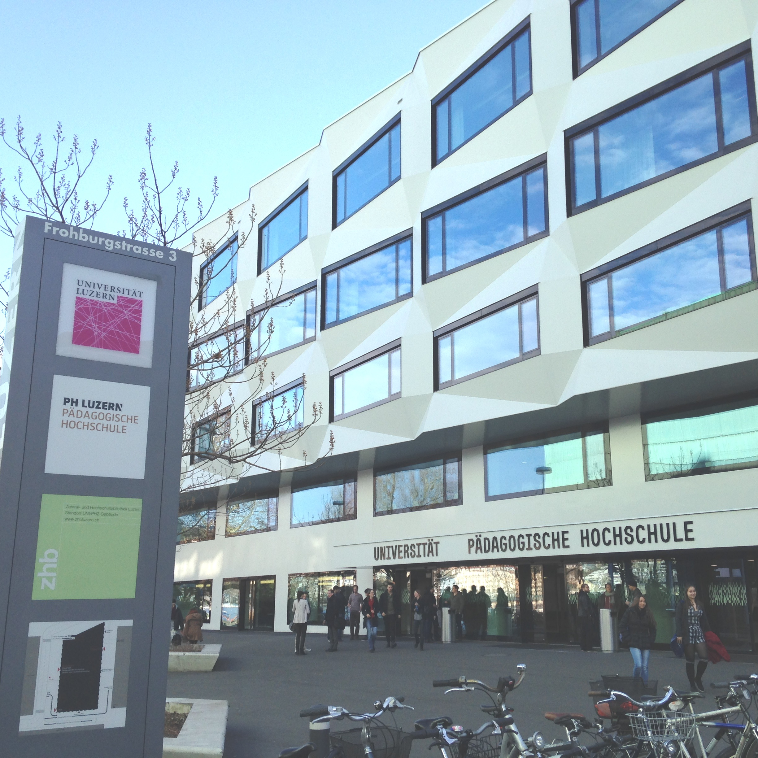 Entrance to the building of the university and the pedagogical college in Lucerne, Switzerland.